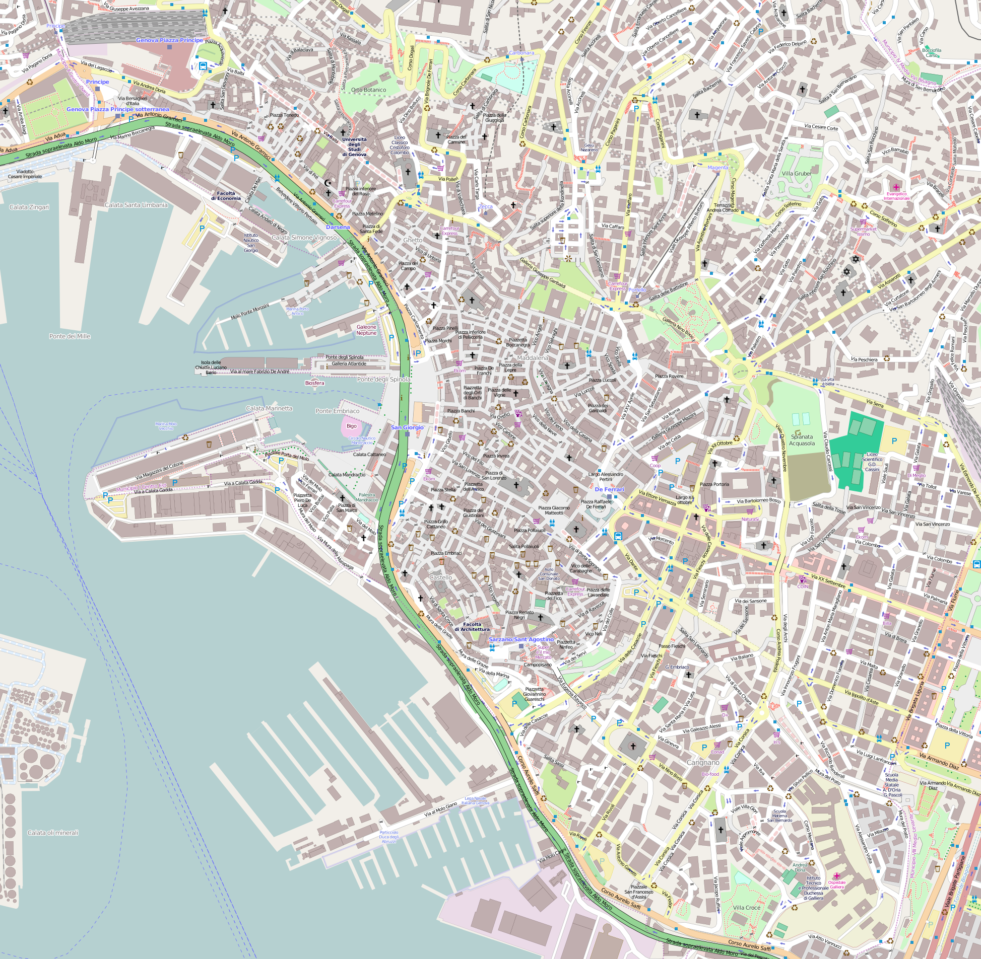 Genoa center, 1:6000